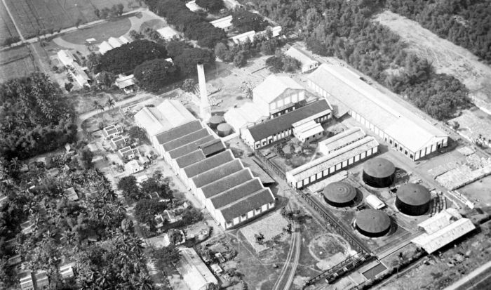 Spirit distillery Factory Wates, East-Java